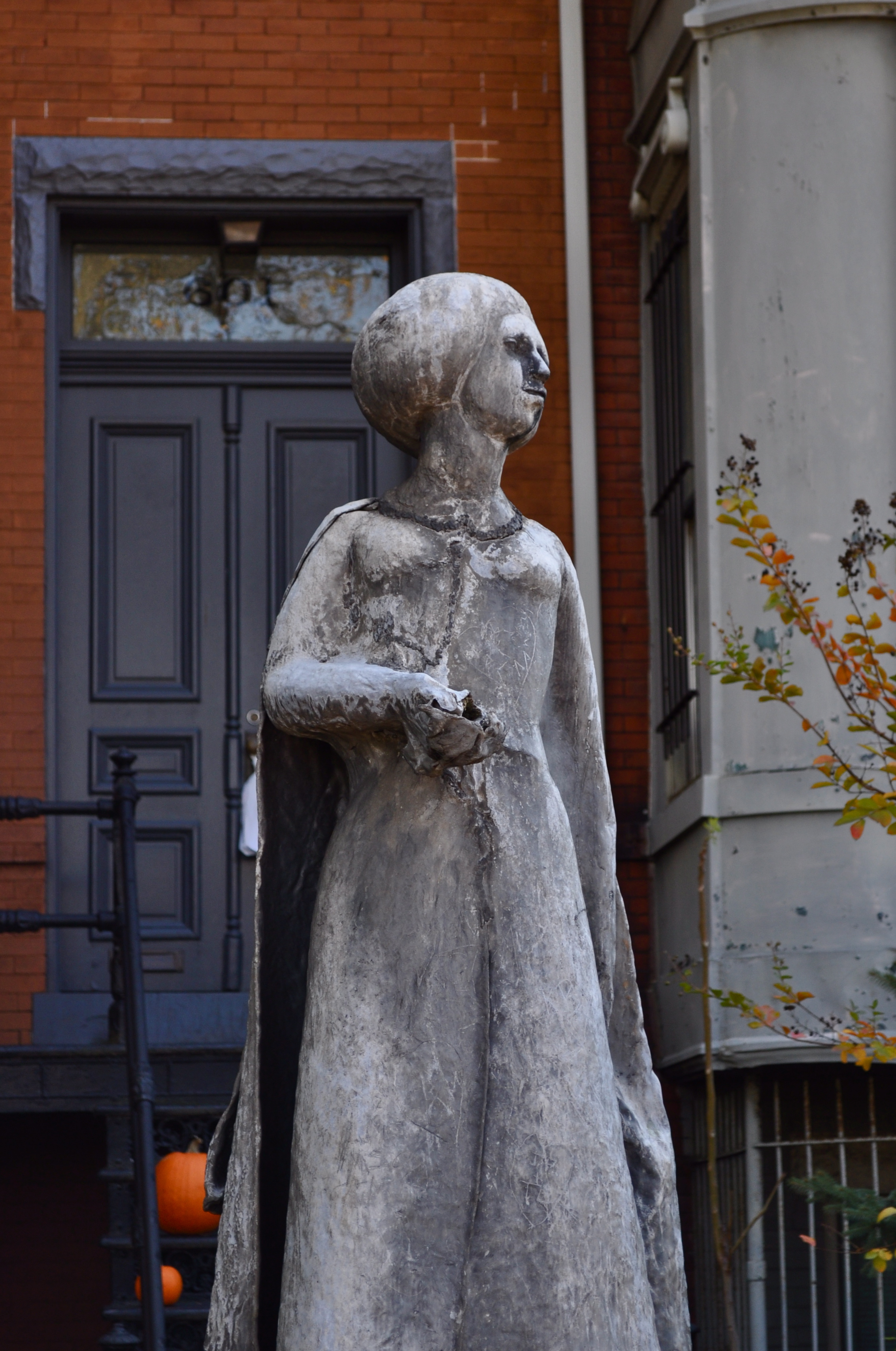 Statue of Olive Risley Steward in Washington, DC.